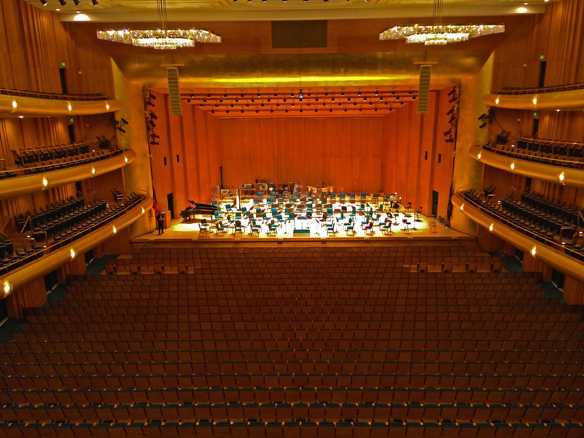 Abravanel Hall house in Salt Lake City, Utah, USA.